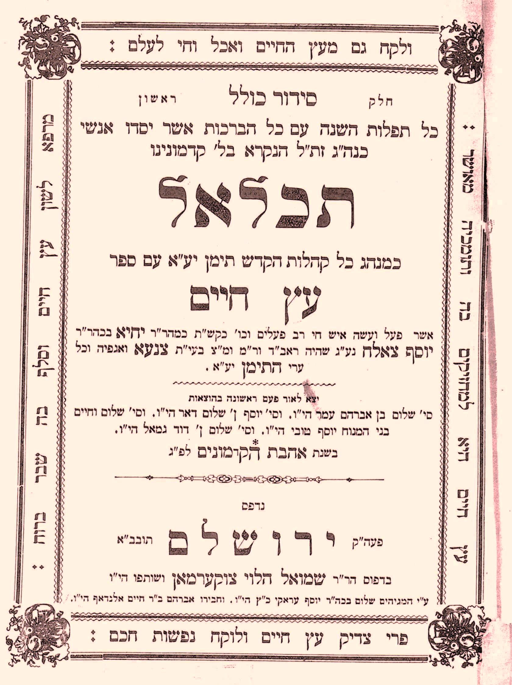 The front-page of a Baladi-rite Siddur, printed in Jerusalem in 1899 by Avraham Al-Naddaf